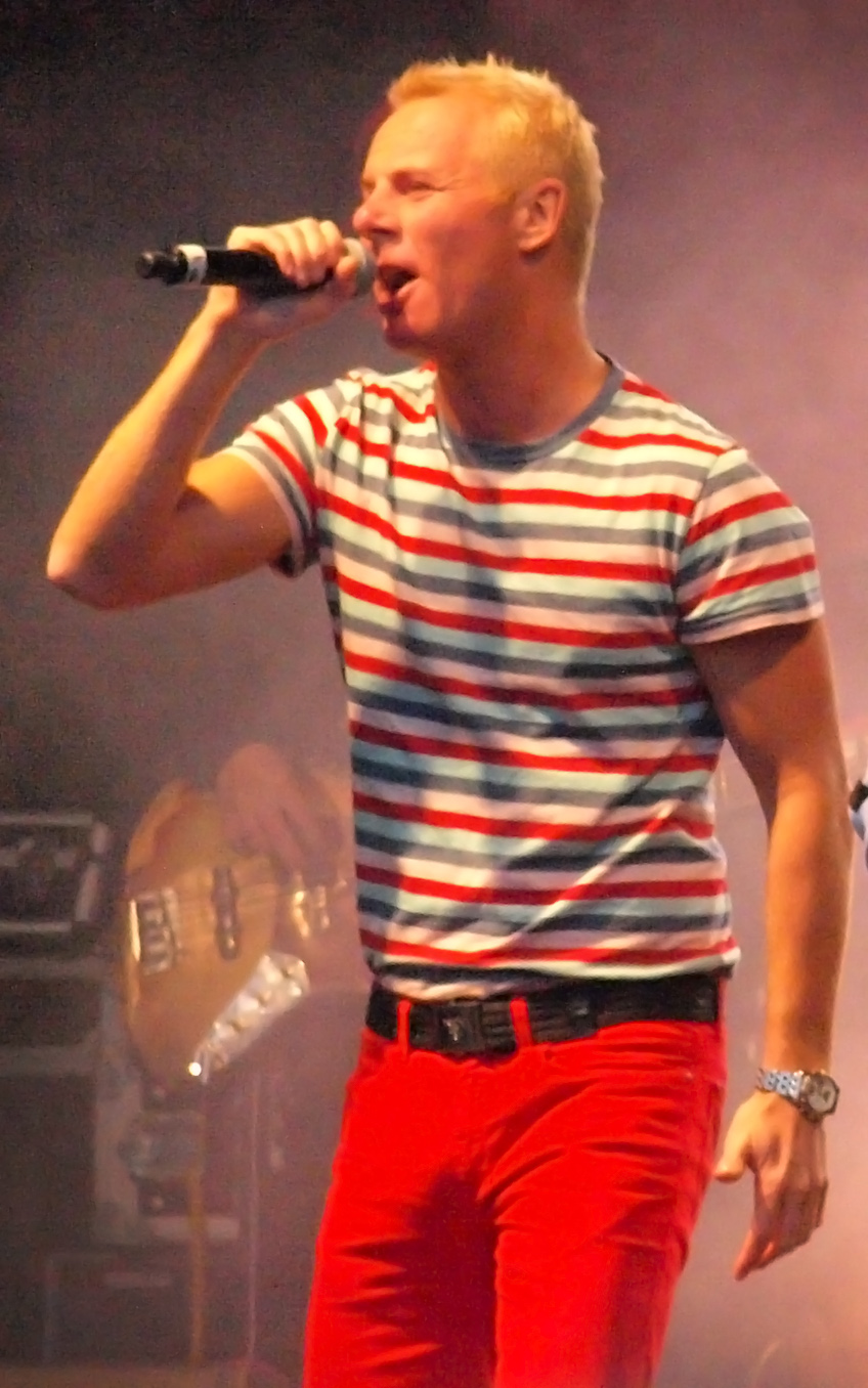 Christer Sandelin from Swedish pop band Style performing in Falun, Sweden.